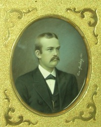 Panted photo from 1881 of CG Dahlerus